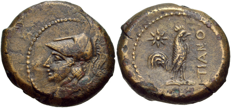 Campania, Teanum Sidicinum (nowdays Teano). Circa 265-240 BC. Æ 21mm (7.99 g, 5h). Helmeted head of Athena left TIANO Cock standing right; star above. HN Italy 435; SNG ANS 626. VF, light brown patina. From the Jörg Müller Collection.